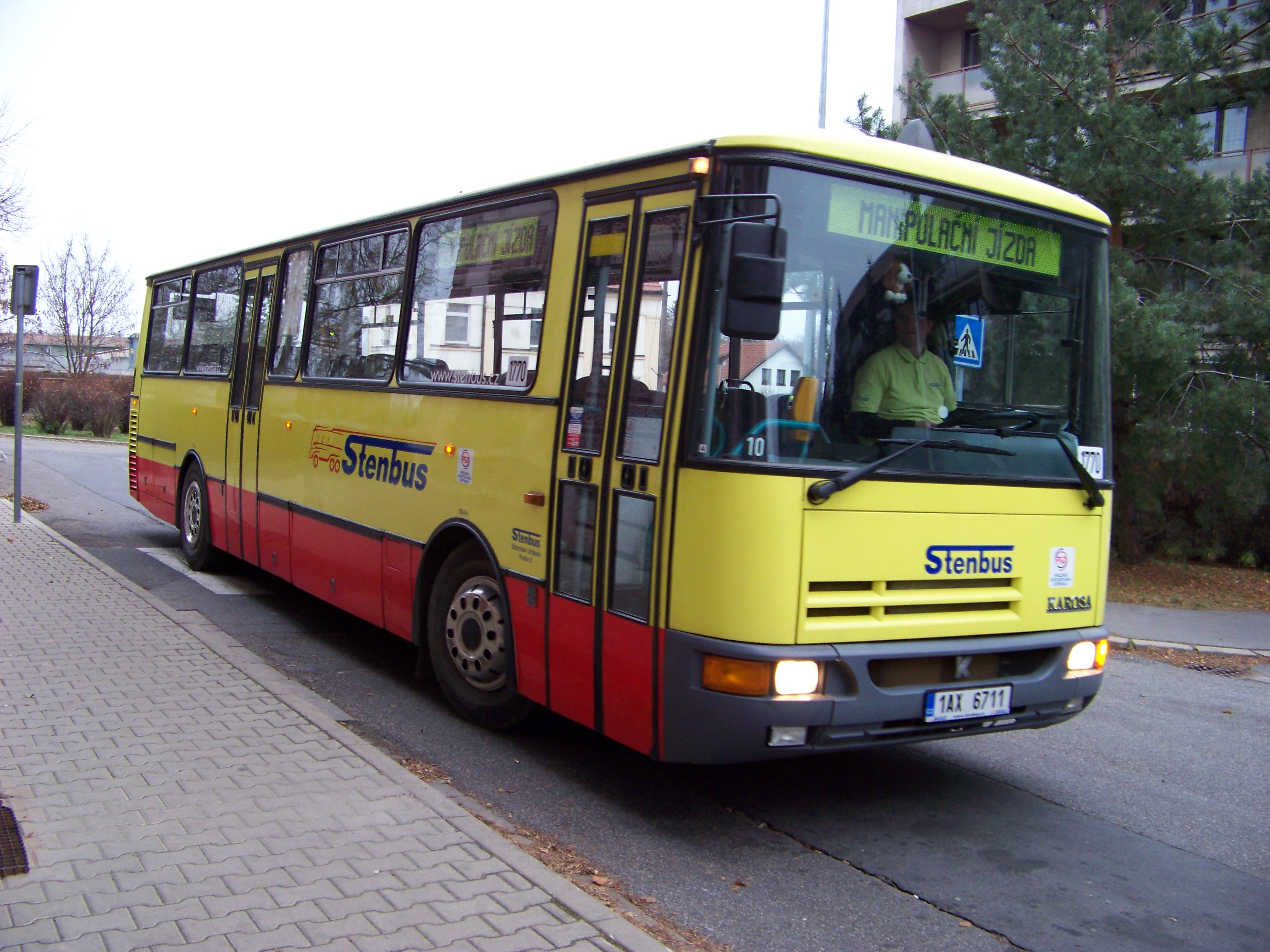 Prague-Uhříněves, the Czech Republic. U starého nádraží street, a bus of Stenbus.